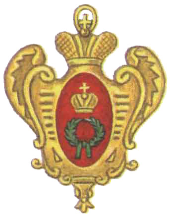 Badge of Horse_Guard Regiment